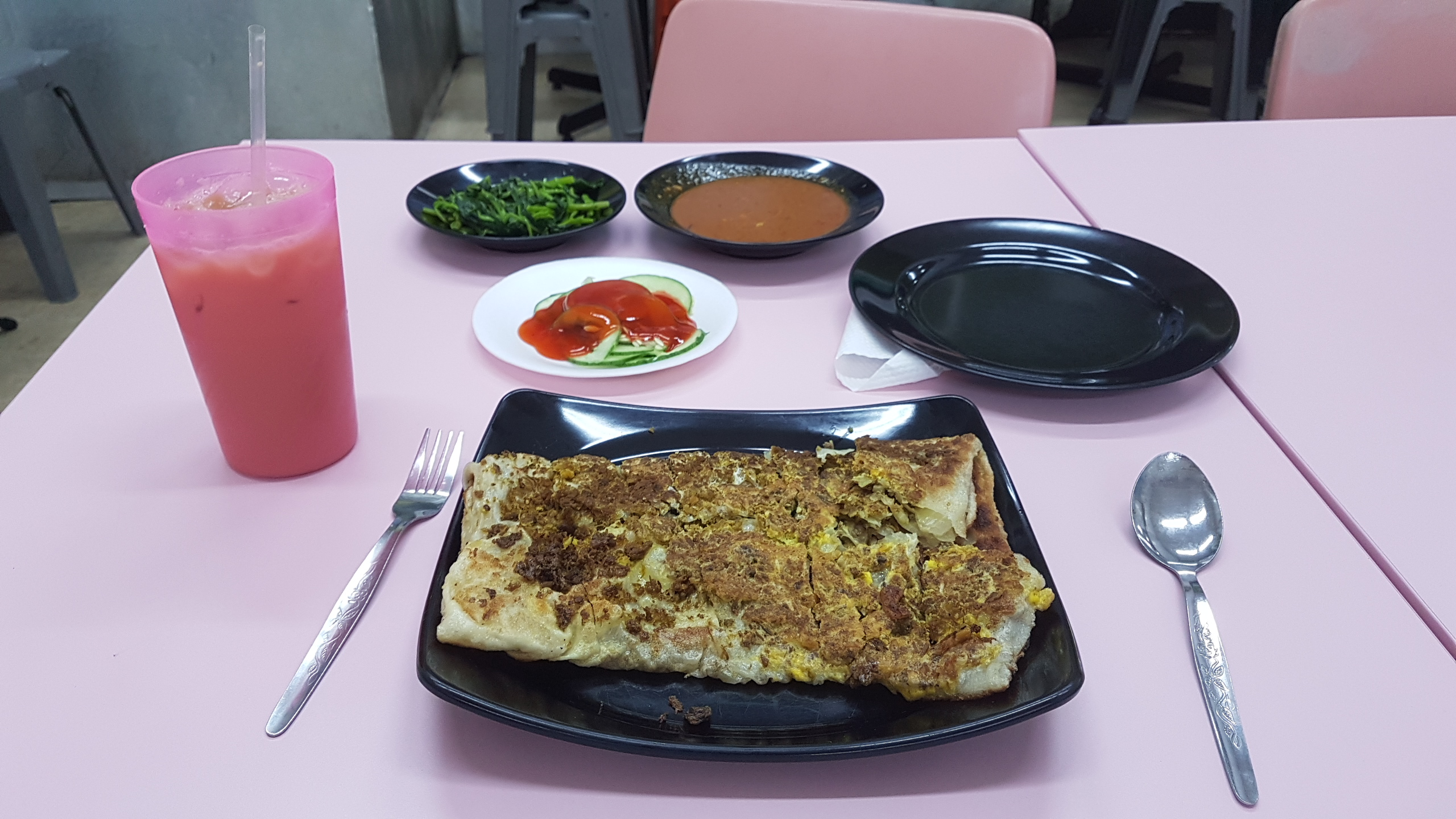 Murtabak and iced tea at Singapore Zam Zam Restaurant, North Bridge Road.